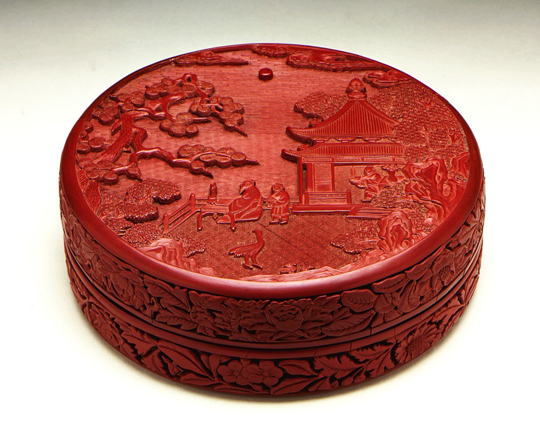 China, Chinese, Early Ming dynasty, Yongle period, 1403-24, but with Xuande mark, (1426-35) written over Yongle mark Furnishings; Accessories Carved red lacquer on wood core Gift of Dale and Nicole Lum (AC1996.206.1.1-.2) Chinese Art Currently on public view: Hammer Building, floor 2